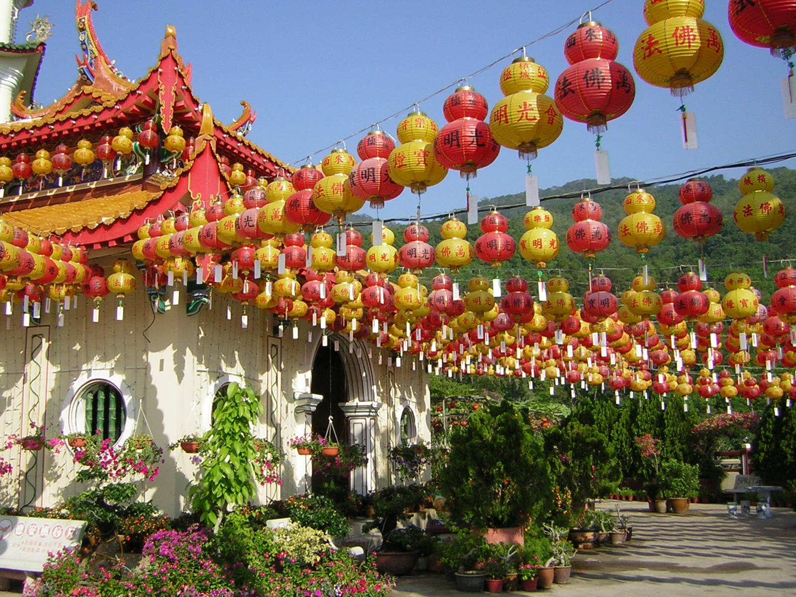 An abundance of Lanterns, Flowers and Greenery further embellishes the grounds of the Ke Lok Temple in Penang, Malaysia